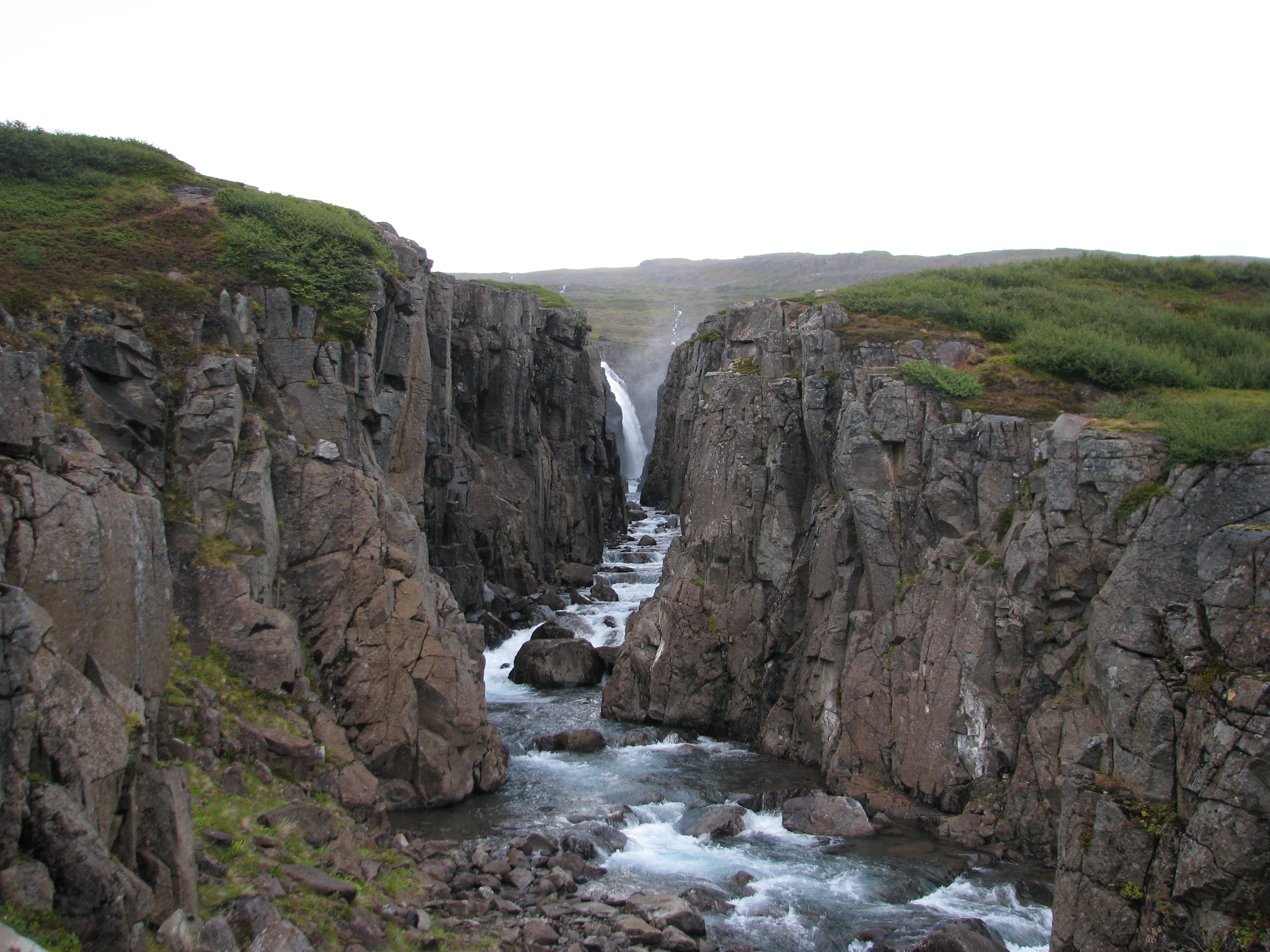 The Godafoss in the Westfjords, a waterfall in Iceland.